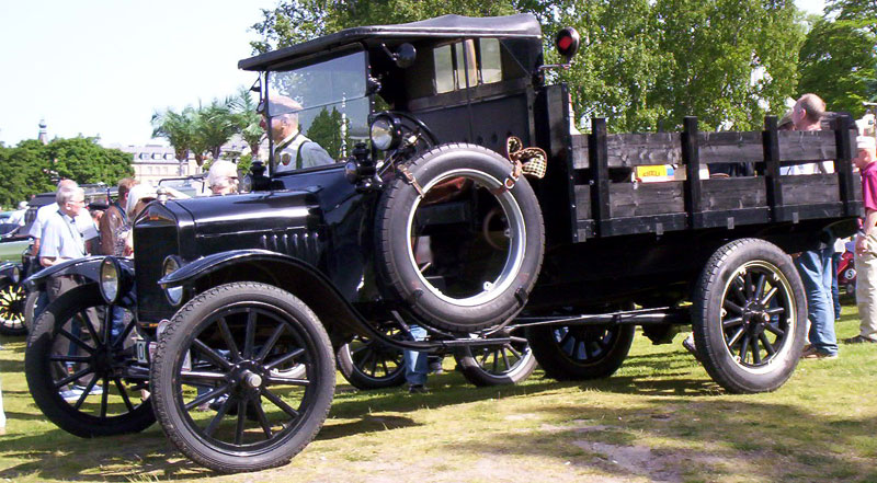 Ford Model TT Truck 1919